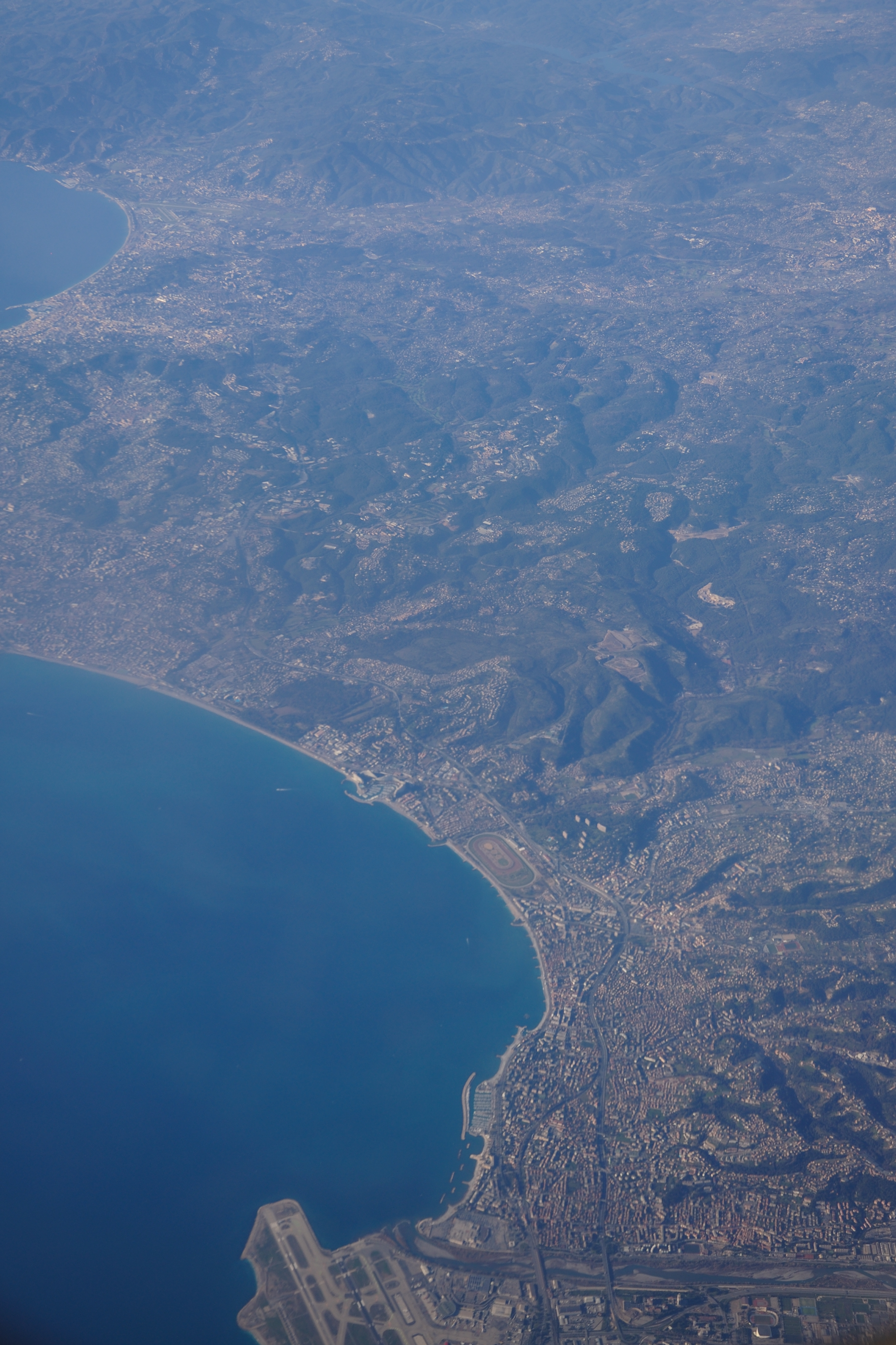 France, impressions of a flight across France. See geocode for exact location